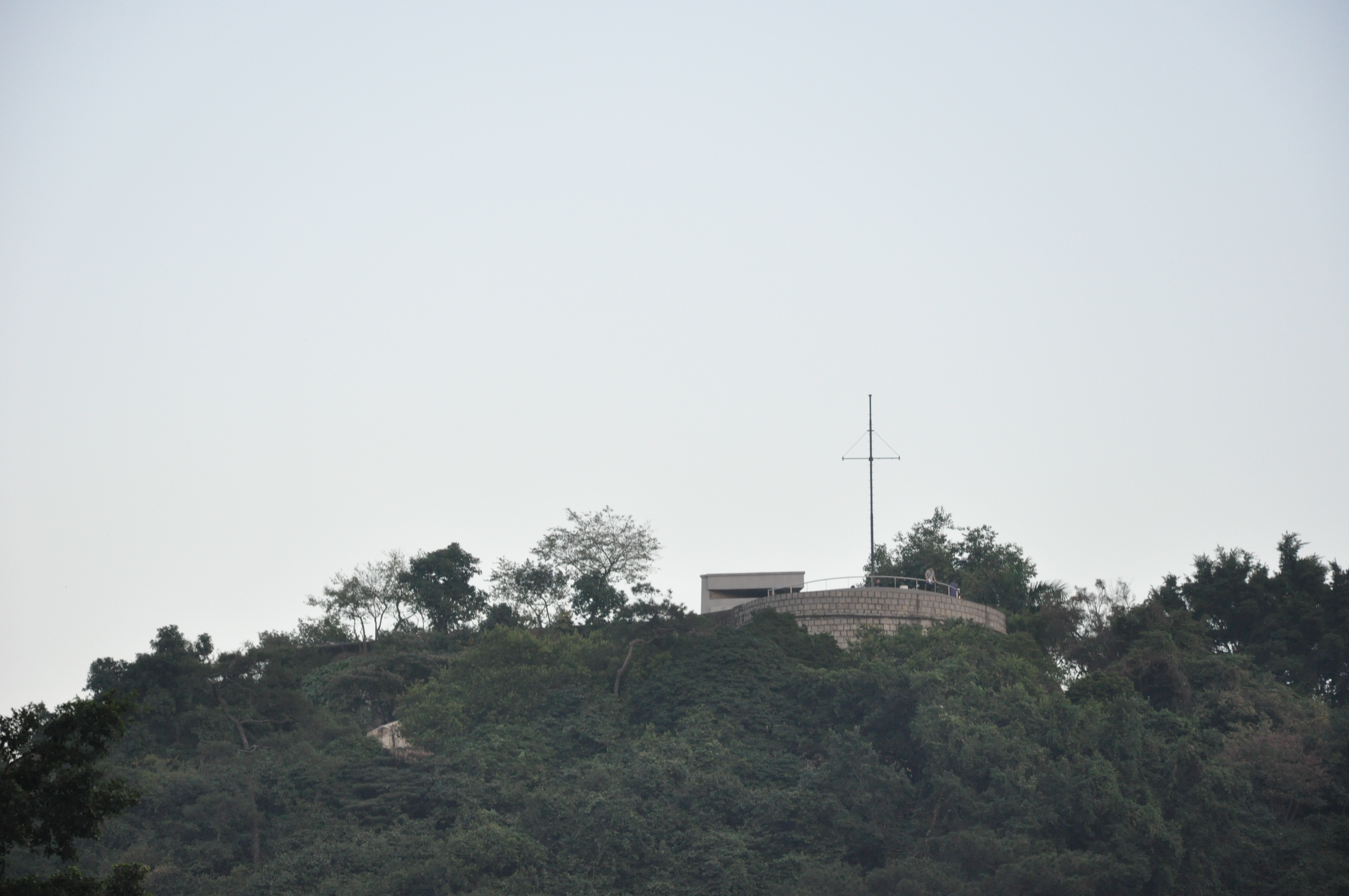 Mong Ha Fort, Macao